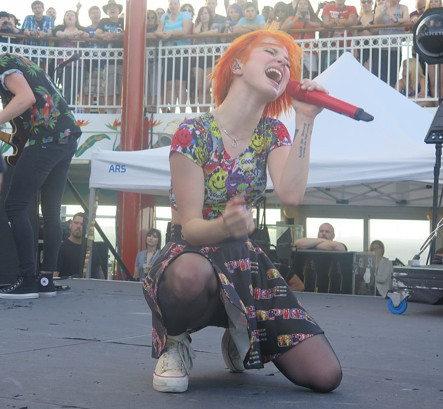 Taken from File:Parahoy!_2014_-_Hayley_Williams.jpg